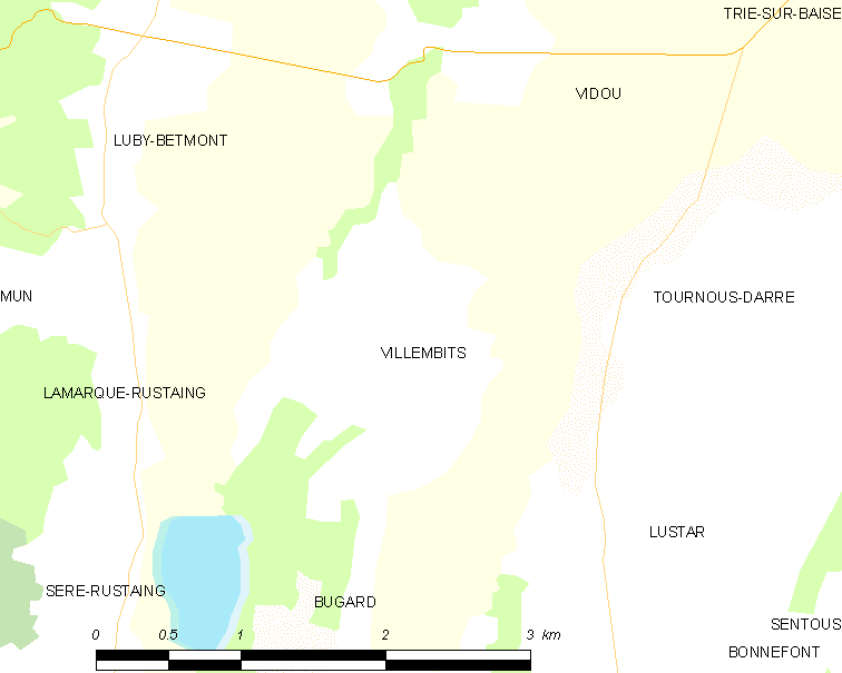 Map of French municipality